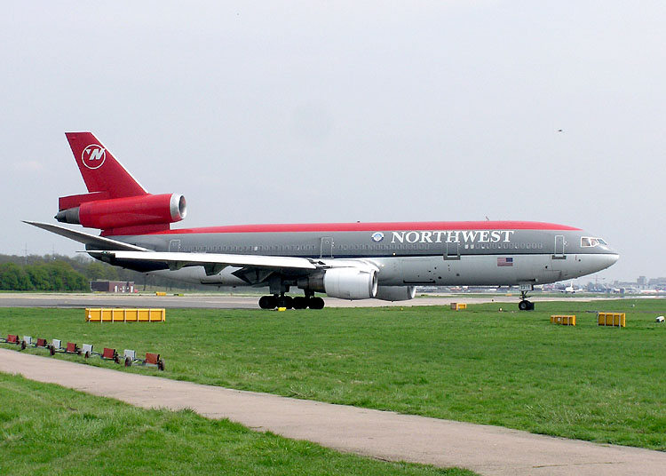 Northwest Airlines DC-10-30 waiting, with engines running, for takeoff clearance at London (Gatwick) Airport.